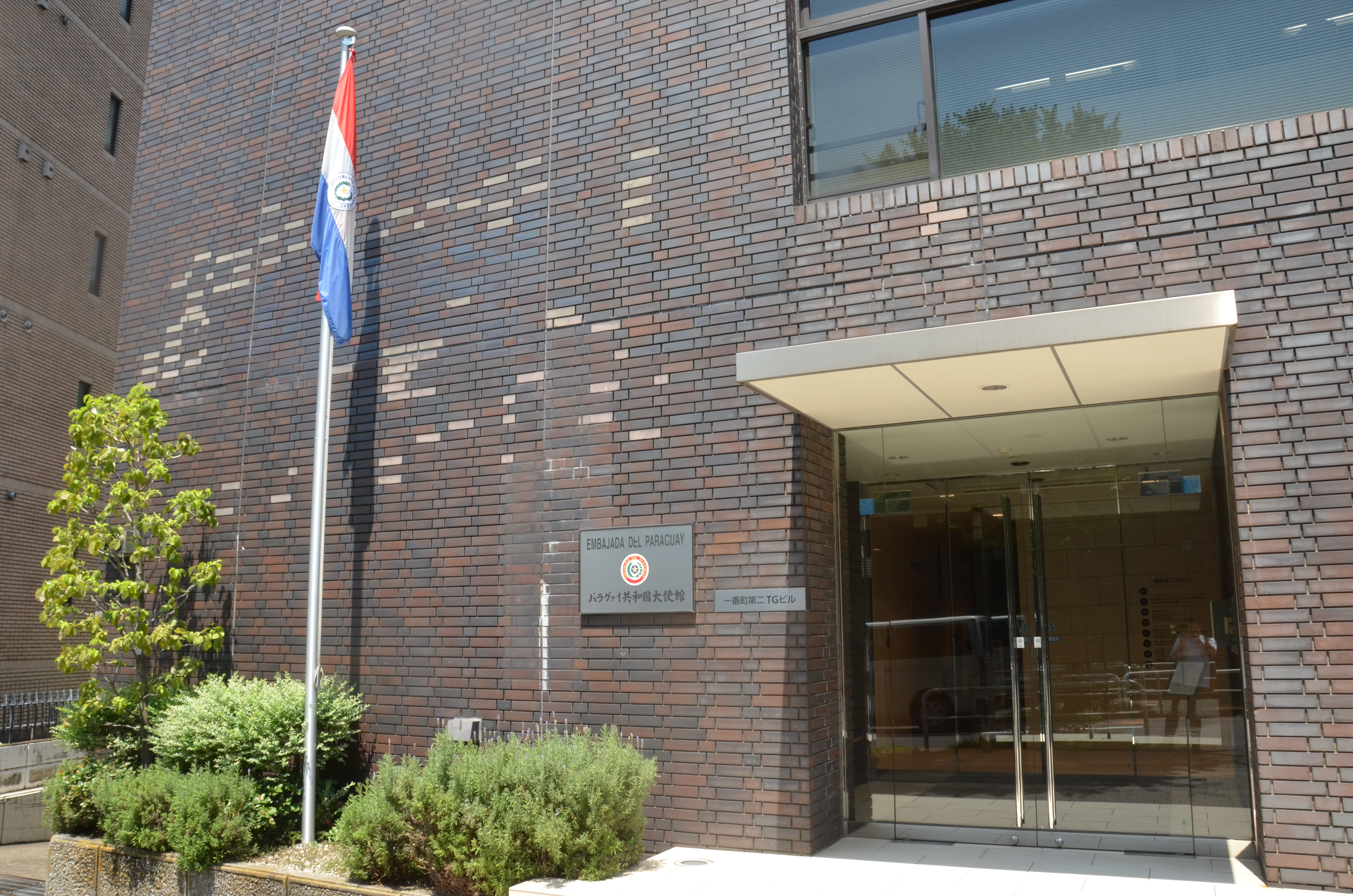 Embassy of Paraguay in Chiyoda-ku, Tokyo, Japan